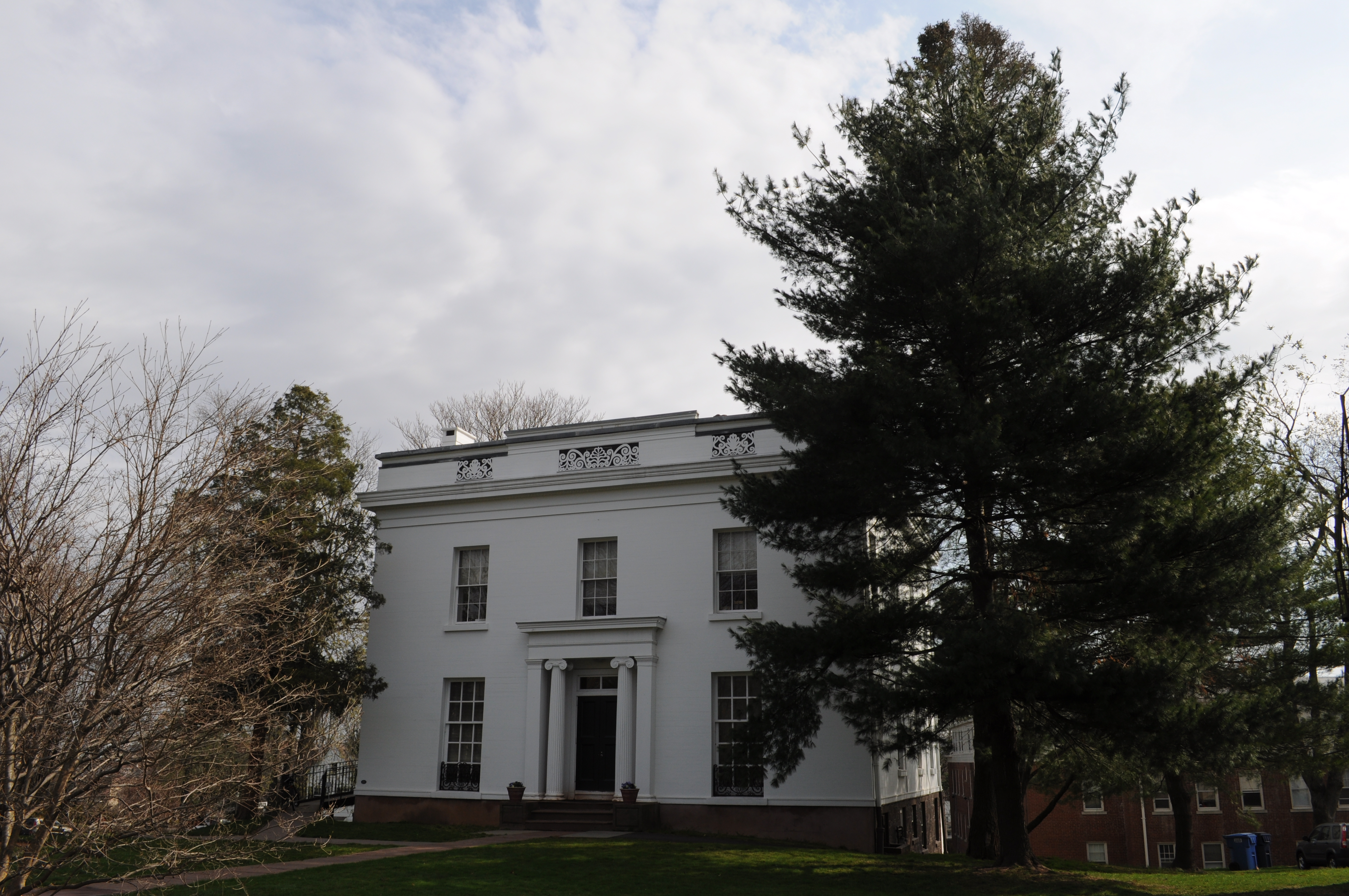 The former Edward Augustus Russell House, 318 High Street, Wesleyan University, Middletown, Connecticut, USA, listed on the National Register of Historic Places. It was later the Kappa Nu Kappa fraternity, and after a variety of other uses now serves as the main office building for University Relations.